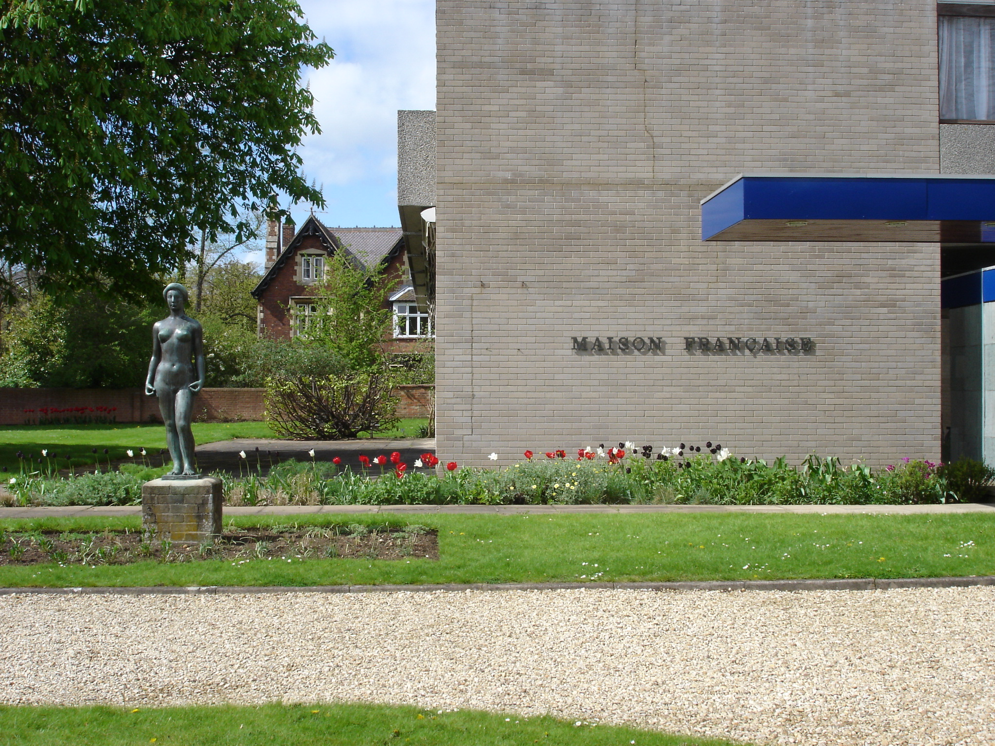 Front view of the Maison Française d'Oxford